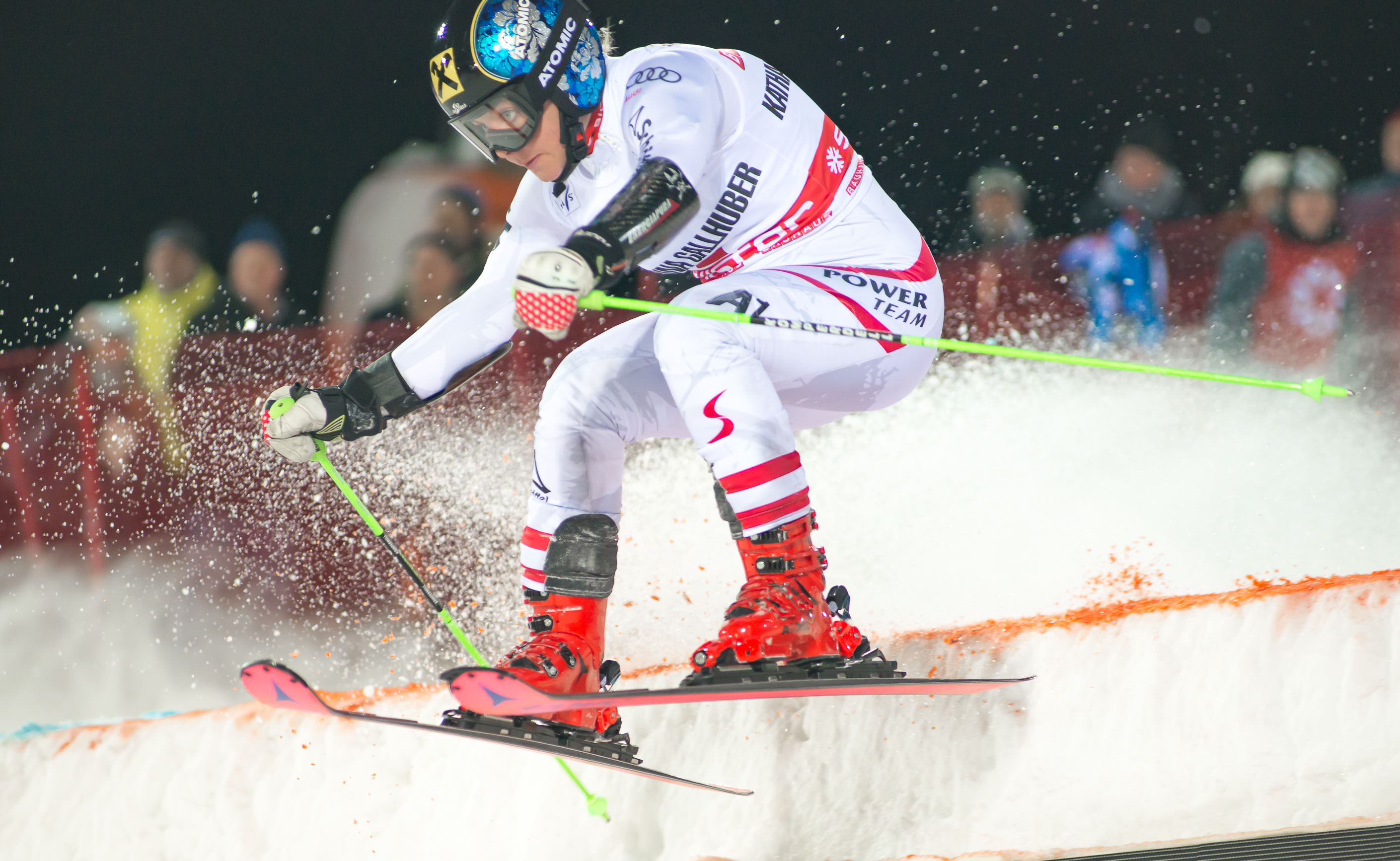 Katharina Gallhuber Photo by Roland Osbeck